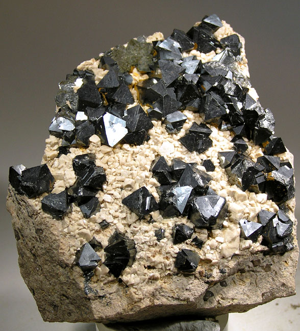 Magnetite Locality: Cerro Huañaquino, Potosí Department, Bolivia (Locality at ) Razor-sharp crystals to one centimeter tip-to-tip, isolated on contrasting matrix. The crystals have a very bright gunmetal luster. 8.6 x 8.2 x 3.2 cm